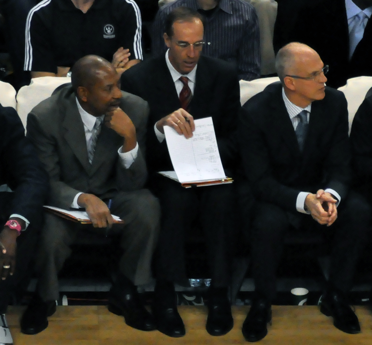 Jay Triano, Alex English, Marc Iavaroni Toronto Raptors